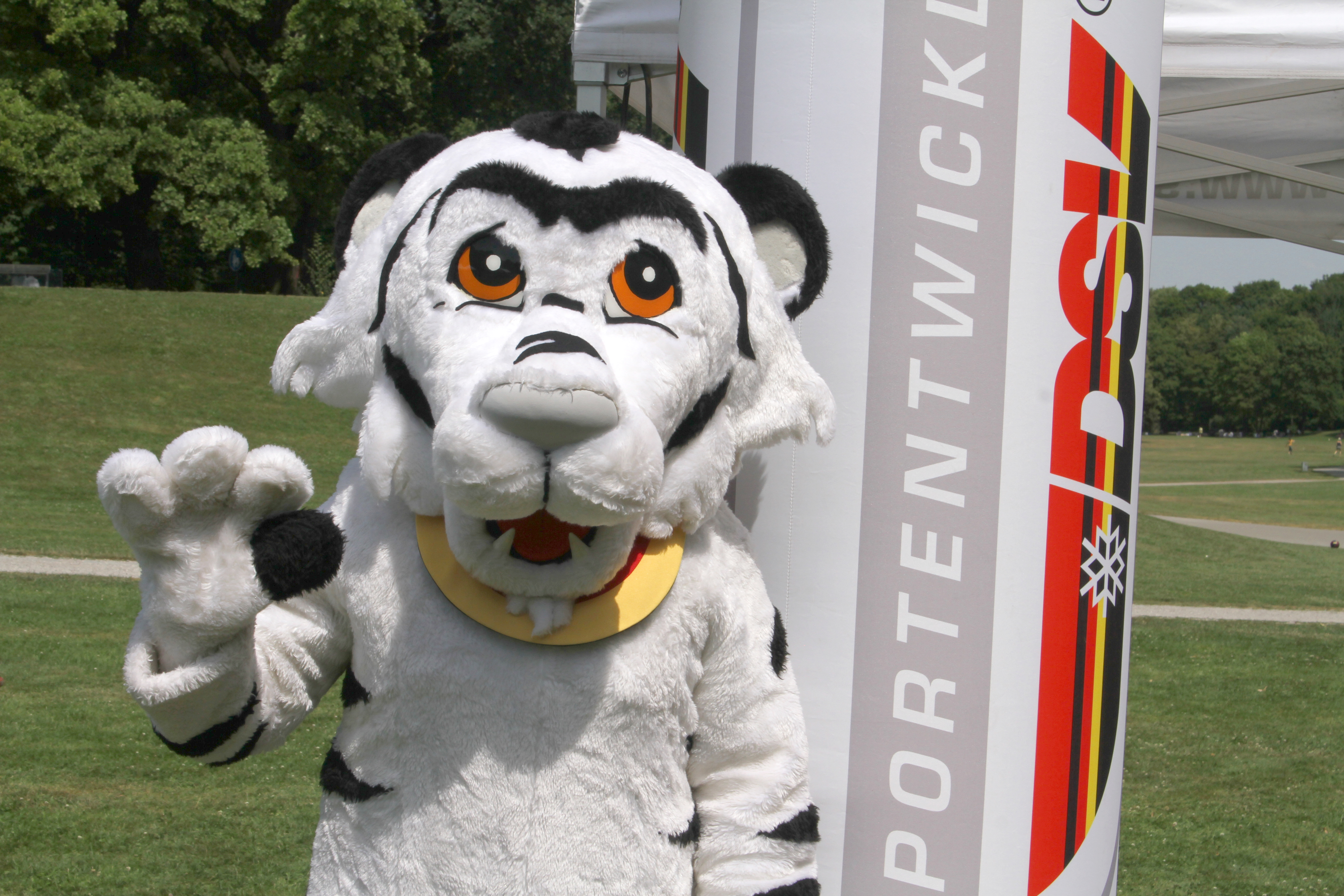 Skitty, mascot of the children's program by the Deutscher Skiverband (German Federation of Skiing) - Internationaler Münchner Inline Cup, Westpark, München.